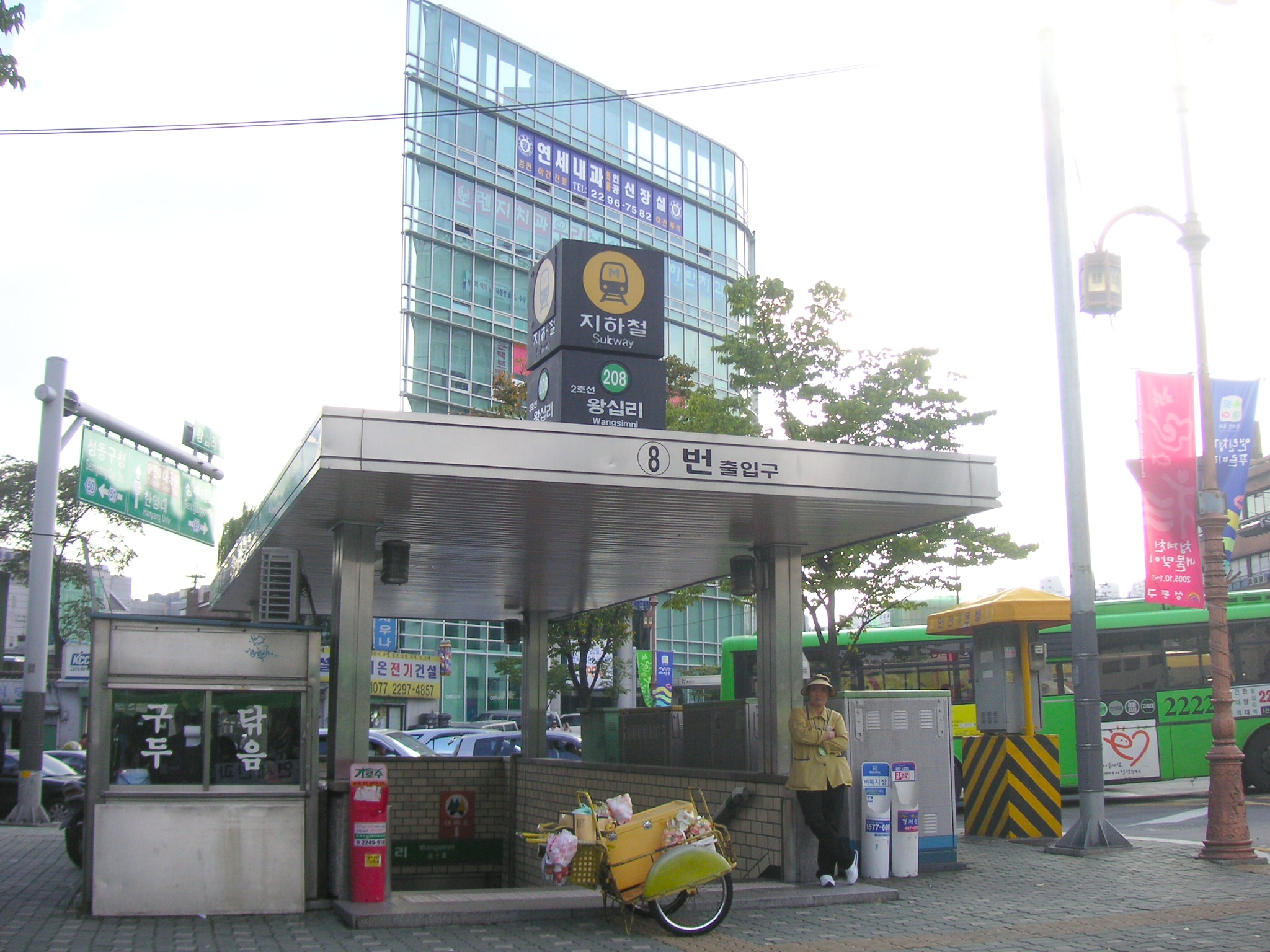 Wangsimni Station (왕십리역) --- I found some old photos of mine, as of now they are about 10 years old. Hard to believe how fast time zooms past us. I suppose the area around Wangsimni is a bit different now. So I'm also uploading this for historical purposes I suppose.